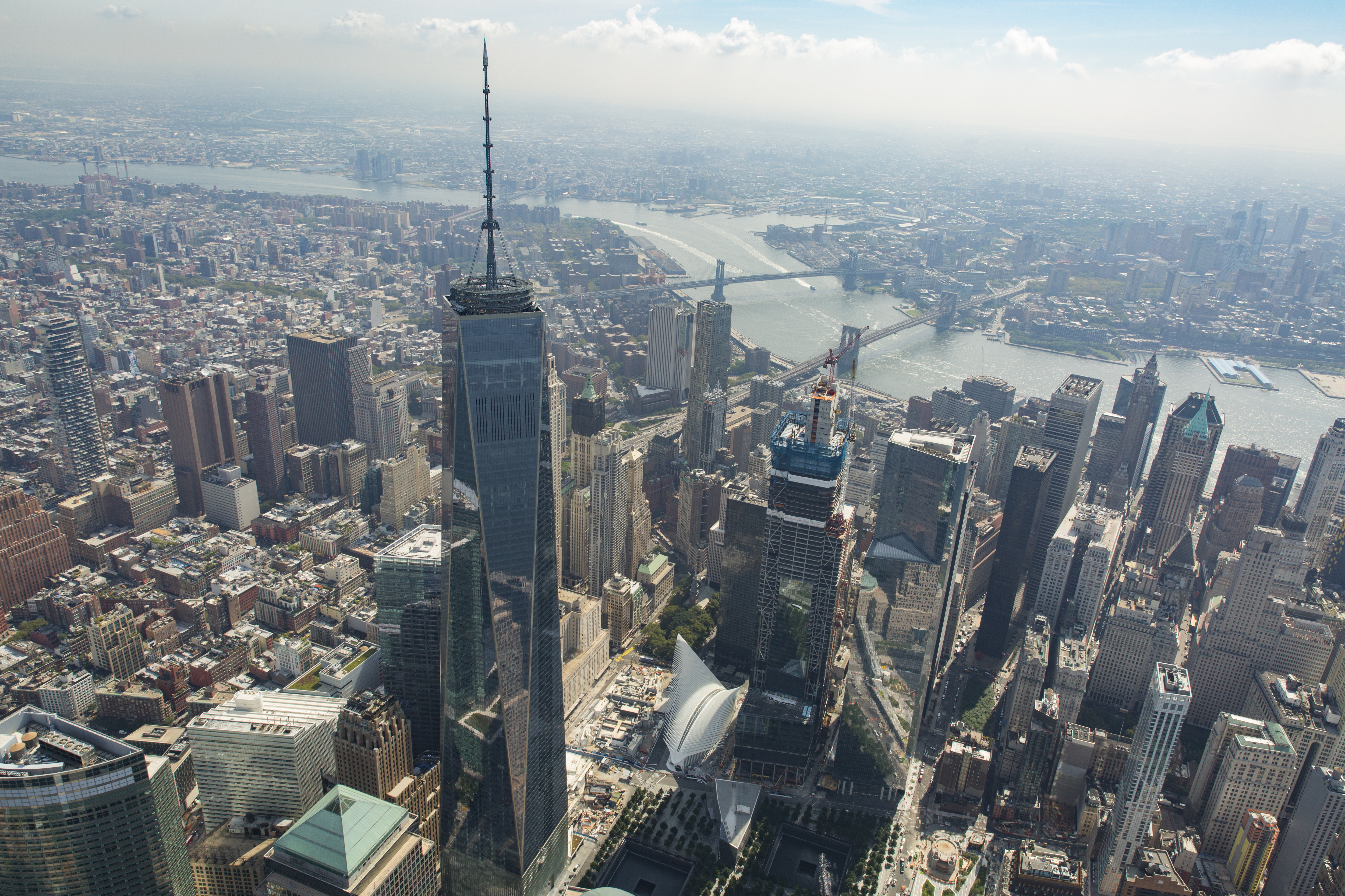 Customs and Border Protection return to the Freedom Tower at the World Trade Center in New York City for the first time since the 9/11 terrorist attacks. Photos by James Tourtellotte